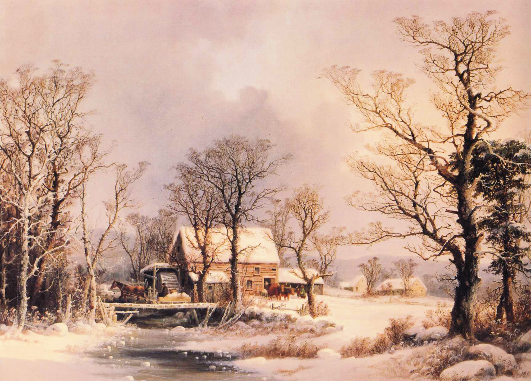 Material and Dimensions: Oil on canvas, 26 x 36 in